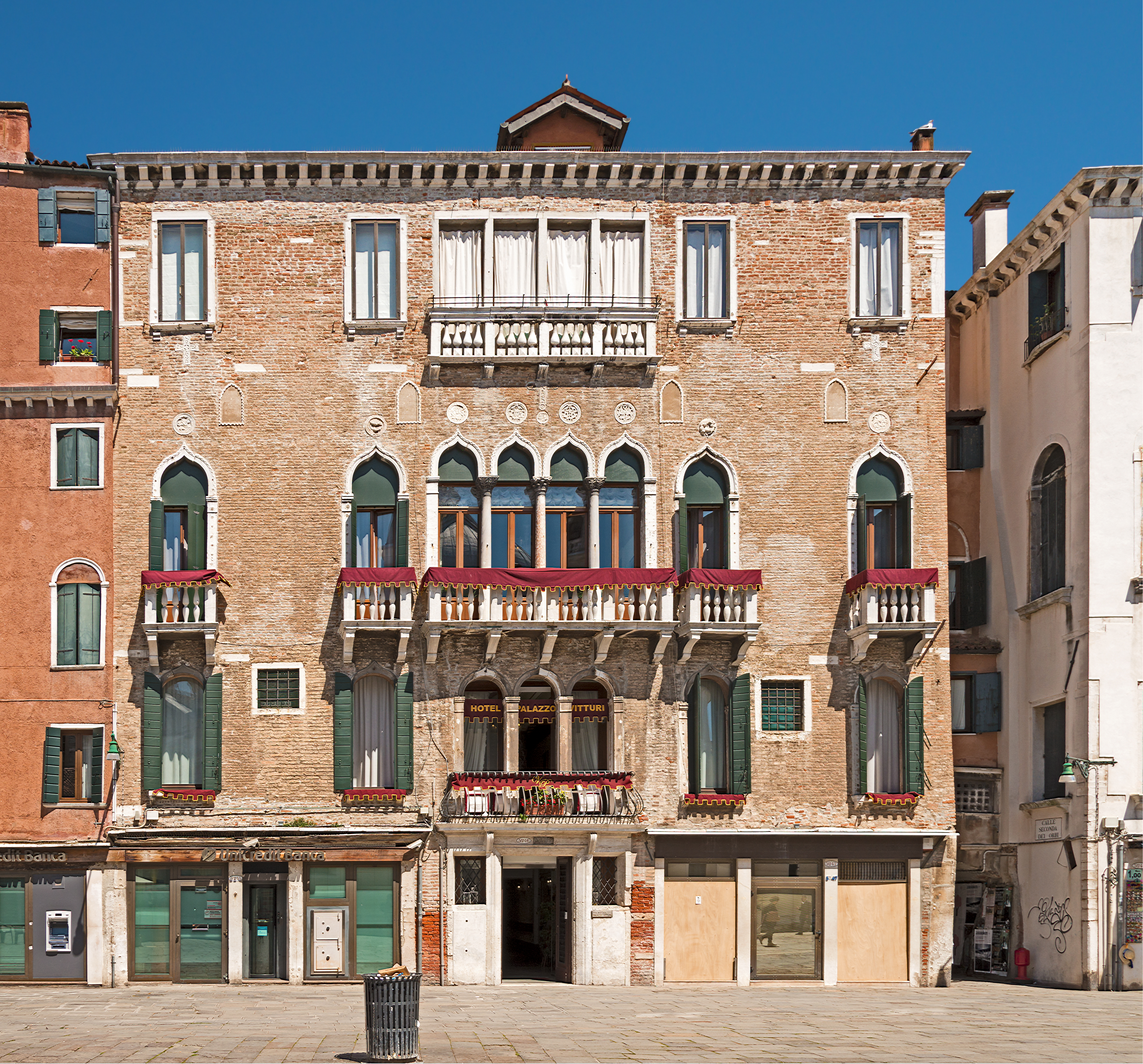 Palace Vitturi, built in the second half of the thirteenth century, on campo Santa Maria Formosa, in Venice